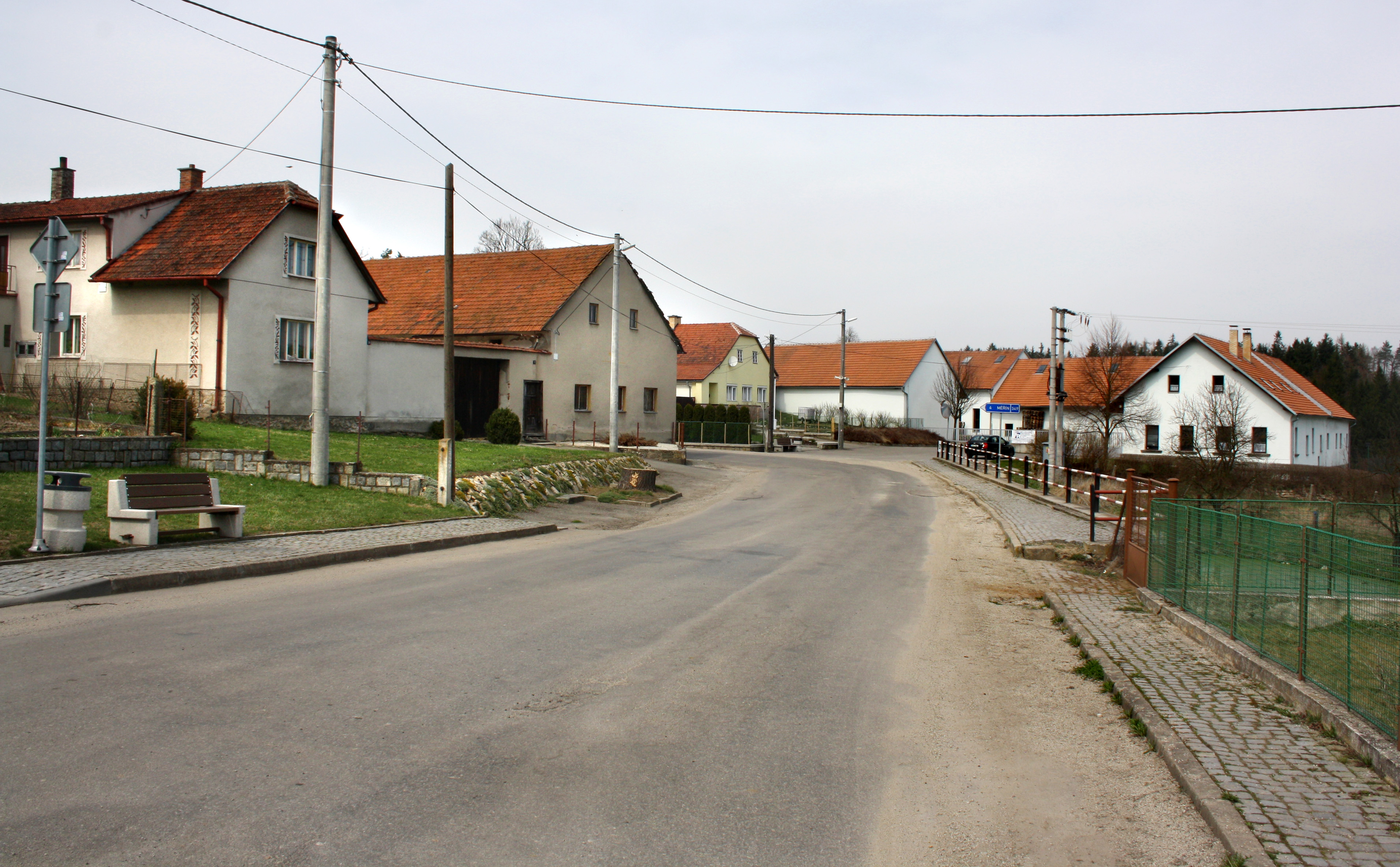 Common in Otín